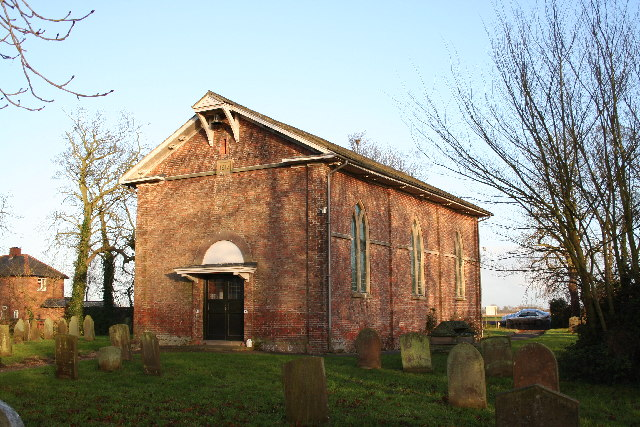 St Peter's church, Wildmore, Lincolnshire, seen from the southwest